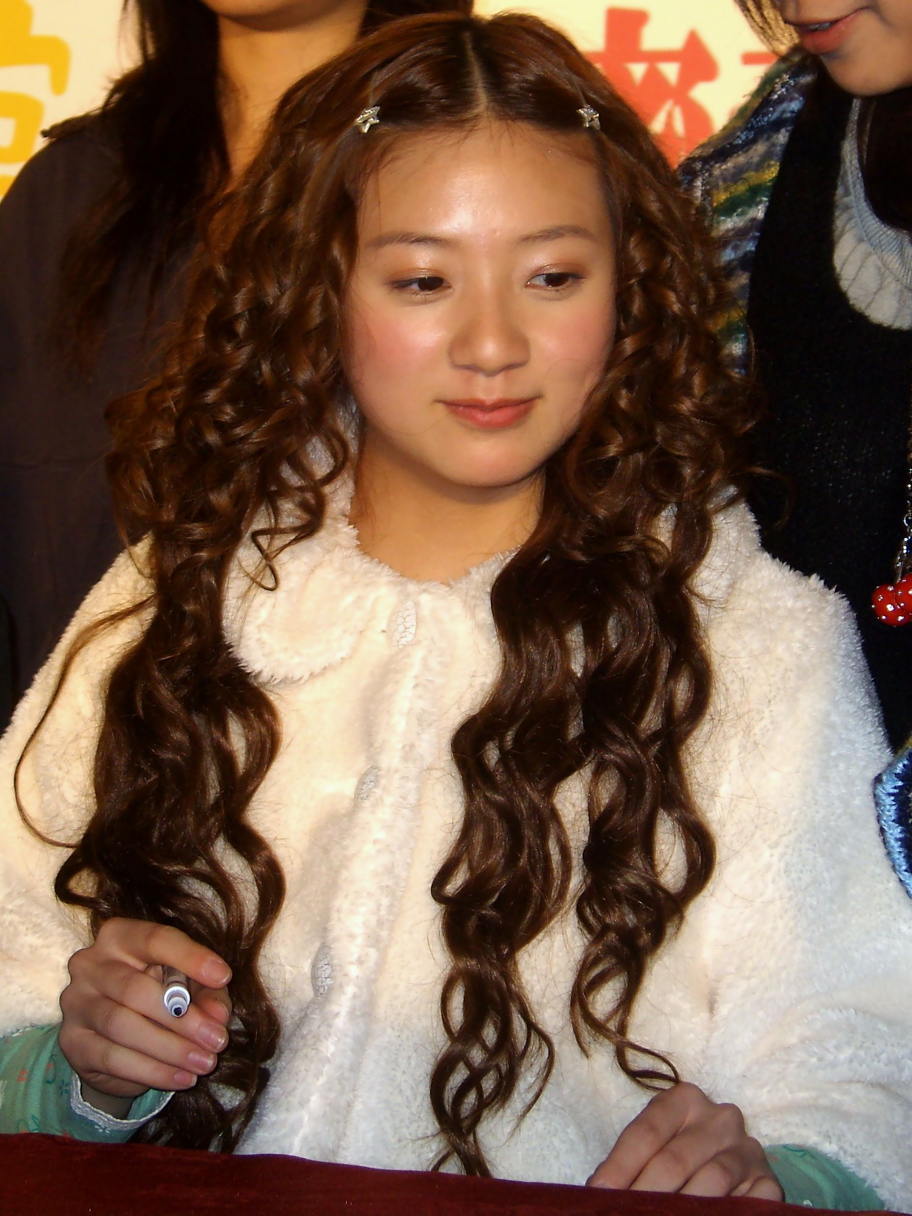 2008 Taipei International Book Exhibition - Signing Event of Japanese Drama "Honey and Clover" in Taiwan: Chiaki Ito.